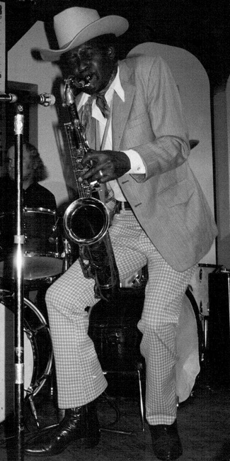 American jazz and R&B tenor saxophone player "Wild" Bill Moore in London, UK (100 club)